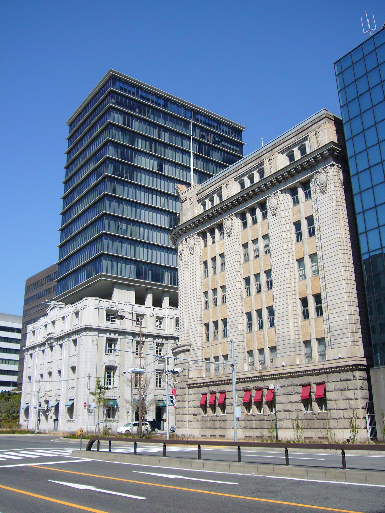 Kaigan-Biru and Shosen-Mitsui Building in Kobe, Hyogo prefecture, Japan